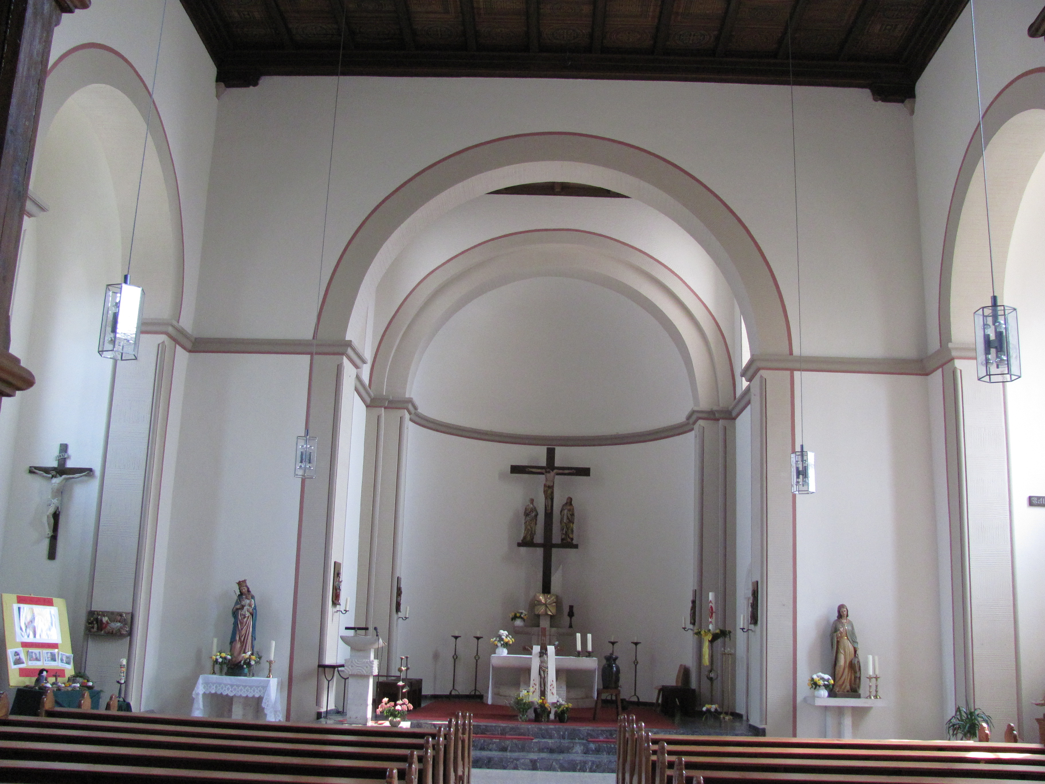 Catholic Church, Schellerten-Bettmar, Lower Saxony, Germany